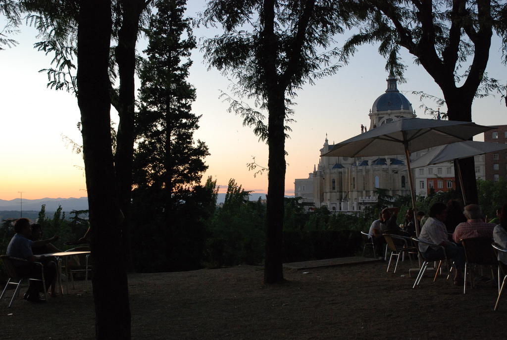 Gardens of Las Vistillas, in Gabriel Miró Square. Madrid, Spain